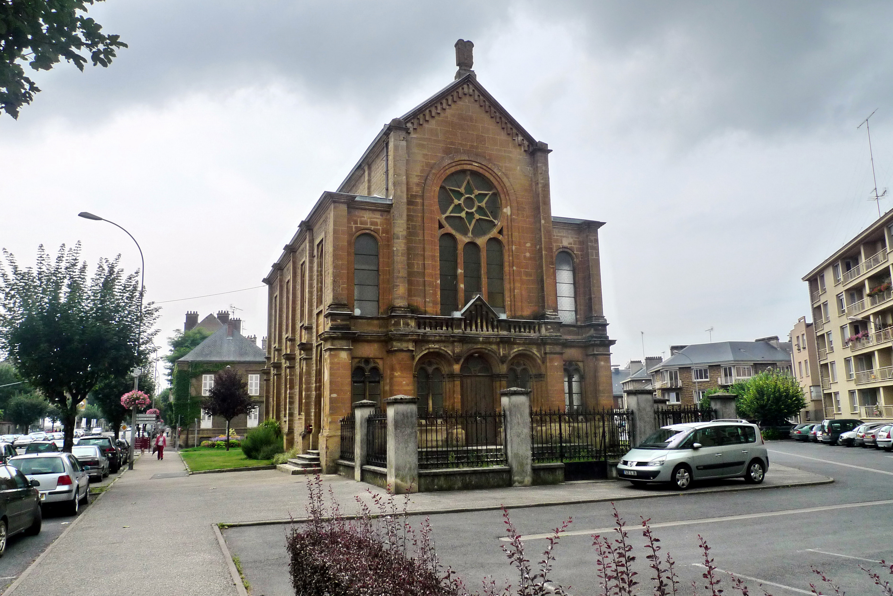 Sedan Synagogue, located on Avenue Philippoteaux, Sedan, Ardennes, Northern France, was built by the Jewish community in 1878.